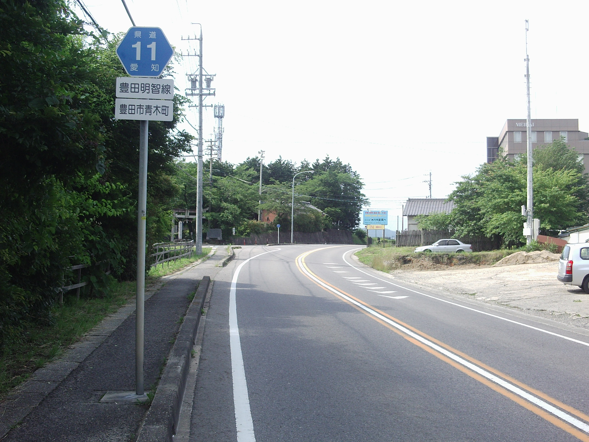 Aichi prefectural road No.11 in Aokicho, Toyota, Aichi.